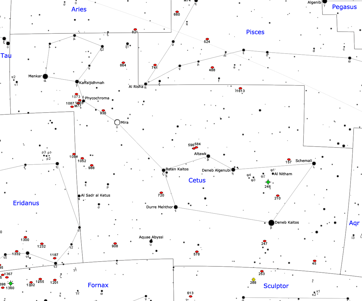 Map of Cetus